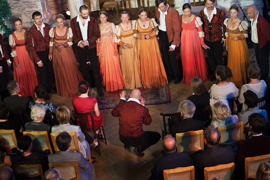 Romeo & Julia Kören during their twenty years anniversary at the Royal Dramatic Theatre in Stockholm, in Augist 2011.